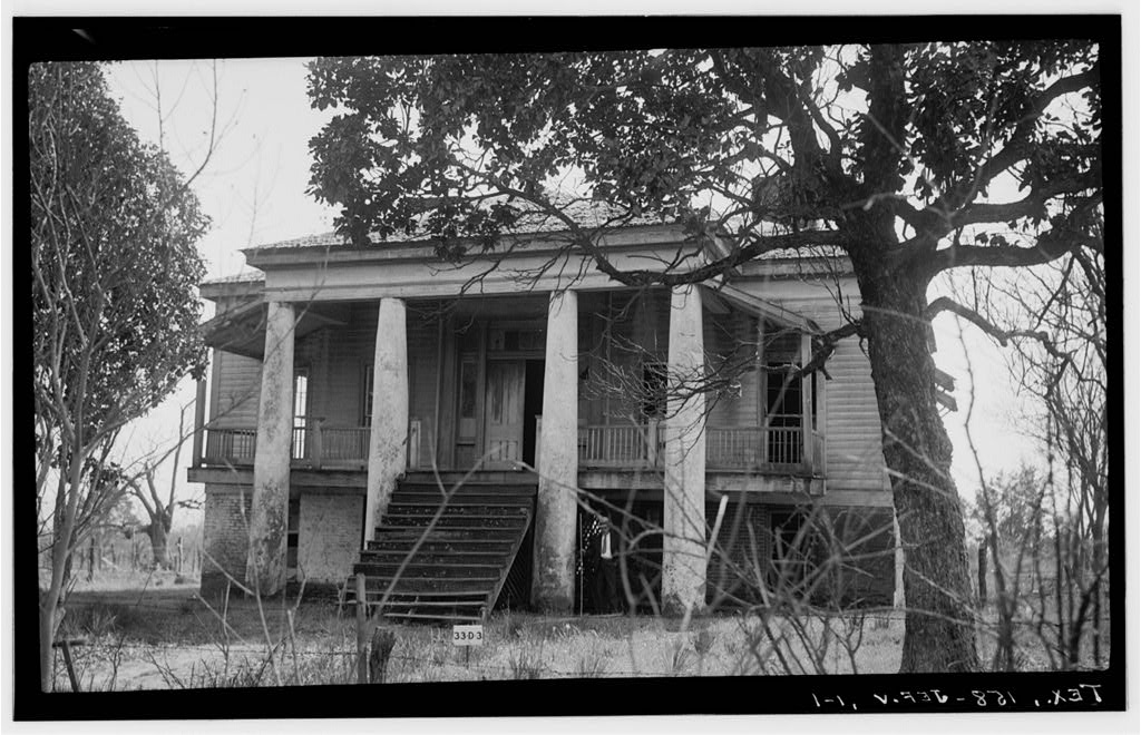 Freeman Plantation House — on TX 49, 0.8 mi (1.3 km) west of Jefferson, in Marion County, Texas. Listed on the National Register of Historic Places in Marion County, Texas. Image: HABS—Historic American Buildings Survey of Texas.